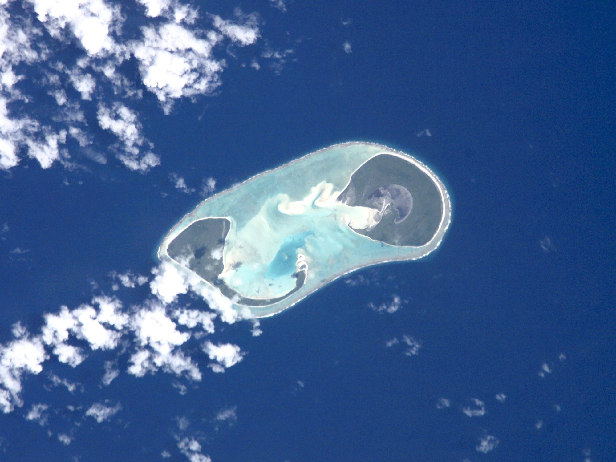 NASA astronaut image of Manuae Islands (Cook Islands) in the Pacific Ocean